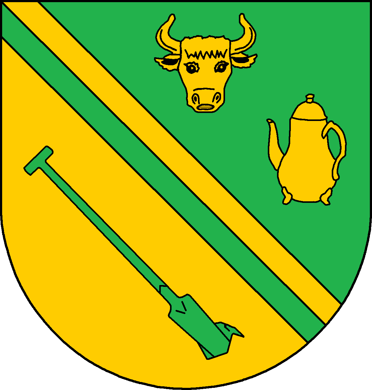 Coat of arms of the municipality Haselund in Schleswig-Holstein, Germany.